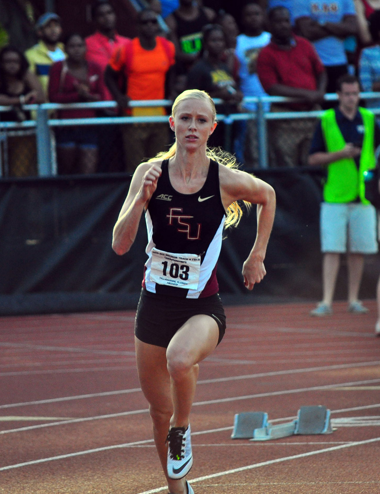 Canadian hurdler Sage Watson